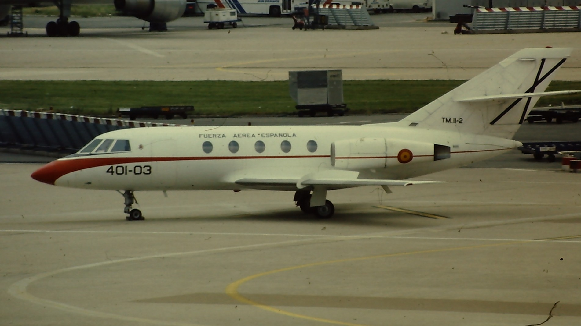 Spanish Air Force Dassault Falcon 20 at Paris-Orly Airport